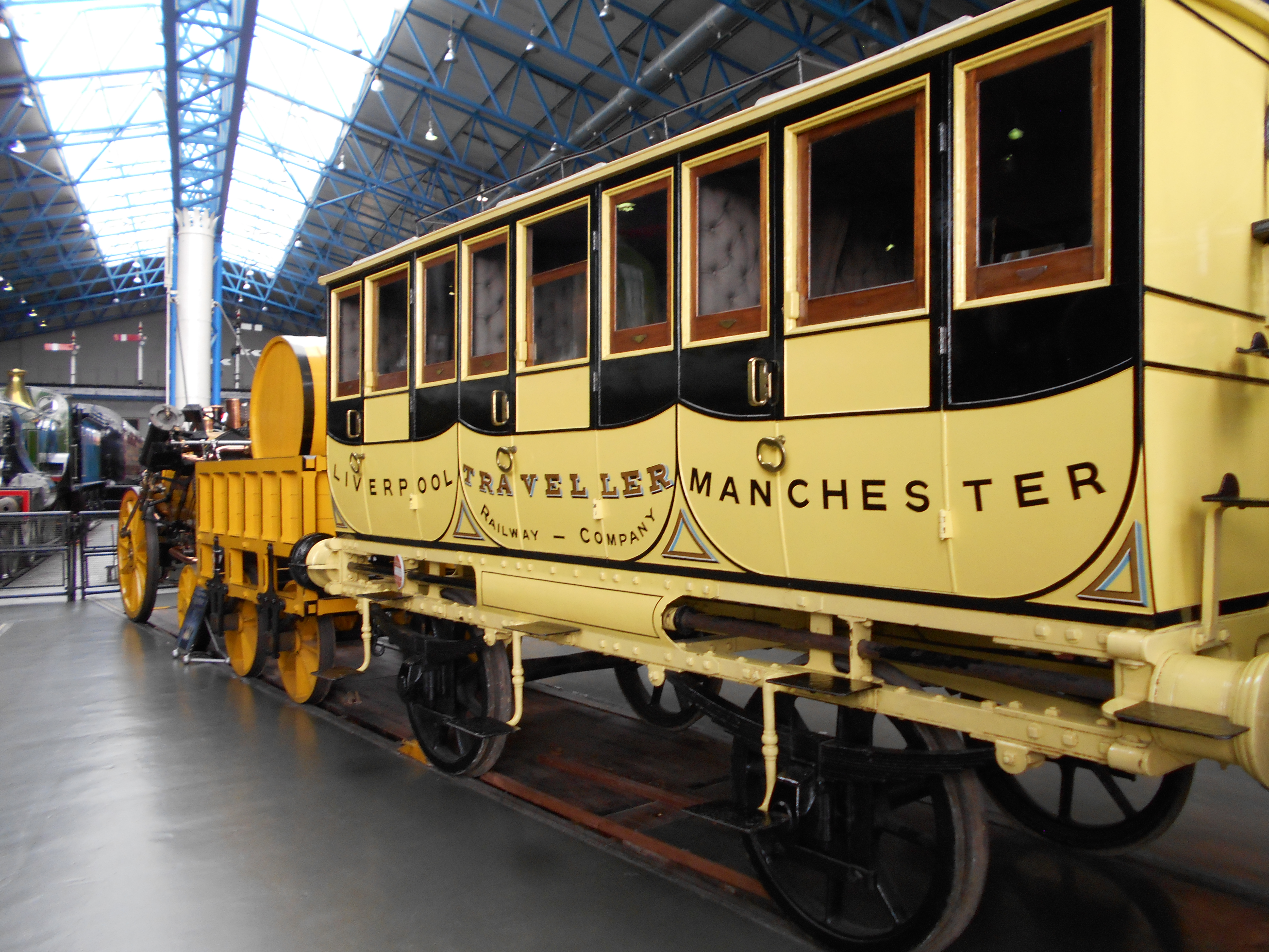 Liverpool and Manchester Railway coach at NRM York